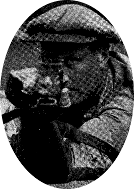 Swedish shooter Olle Ericsson